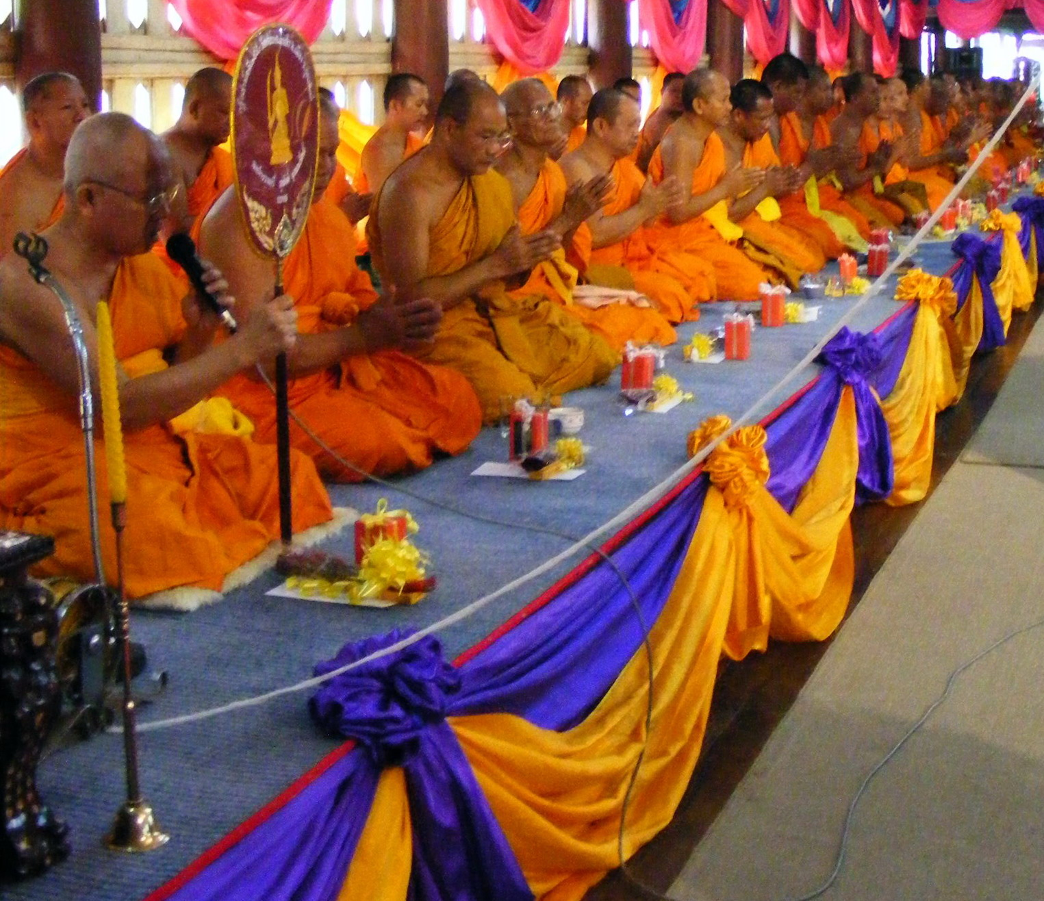 rank celebration of Phrakhru Suphattharasantikhun (Wirat Santakayo) (Buddhist temple abbot of Wat Doi Tha Sao).in Tha Sao subdistrict, Mueang Uttaradit, Uttaradit Province, Thailand. on February 10, 2008.